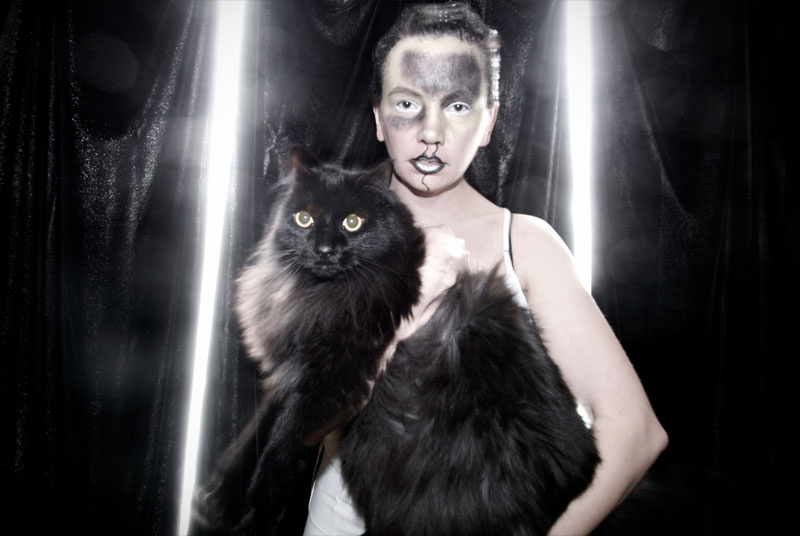 Publicity photo for Hungry Lucy's 2010 release, Pulse of the Earth.